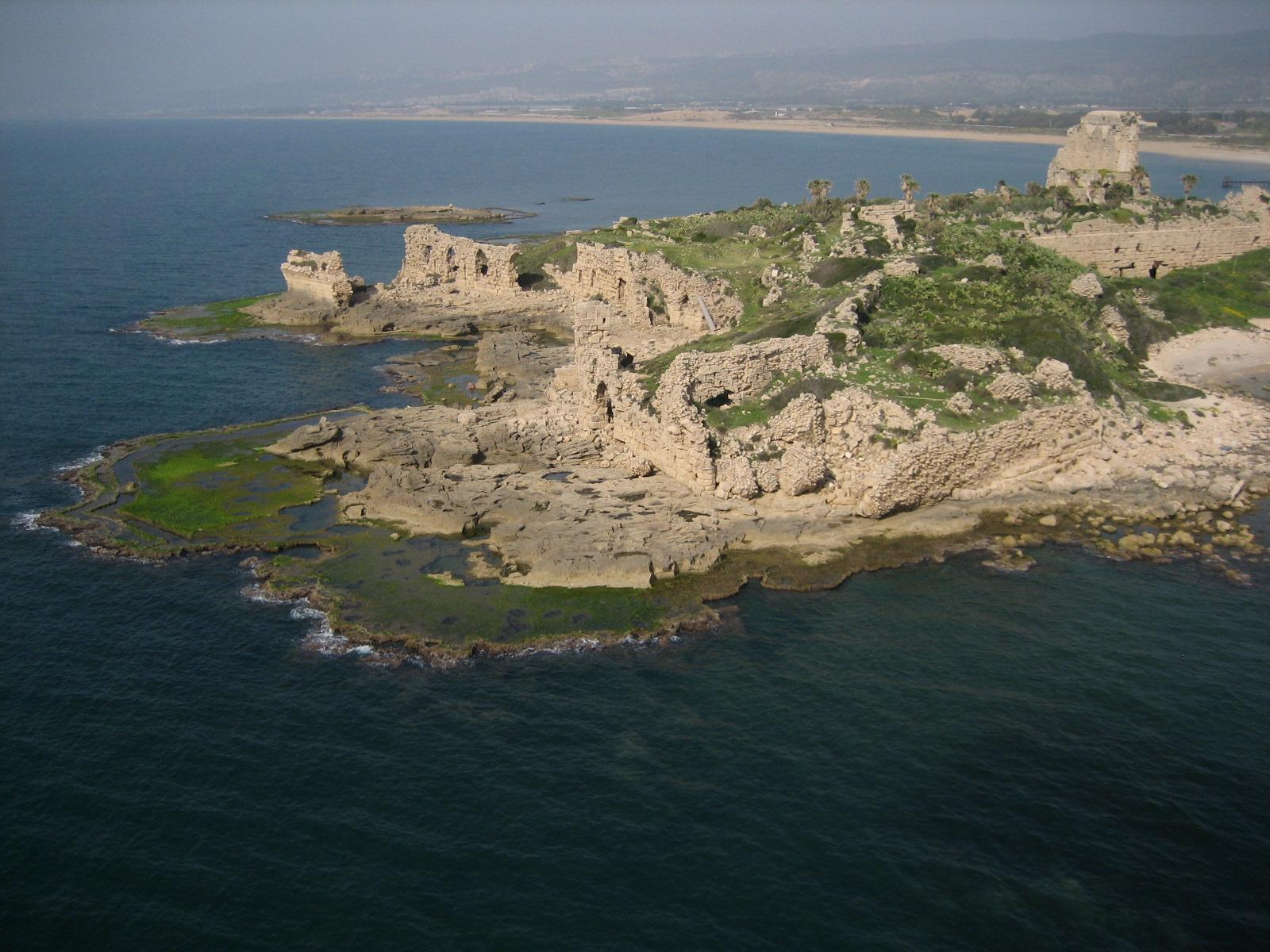 The crusader fortress of Athlit, Israel